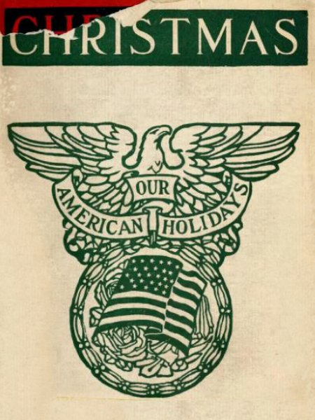 Christmas : its origin, celebration and significance as related in prose and verse